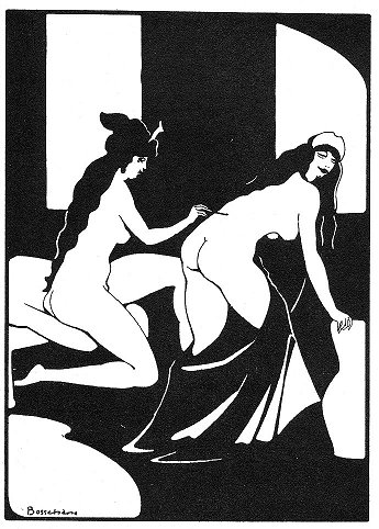 Illustration to Ovid's Art of Love